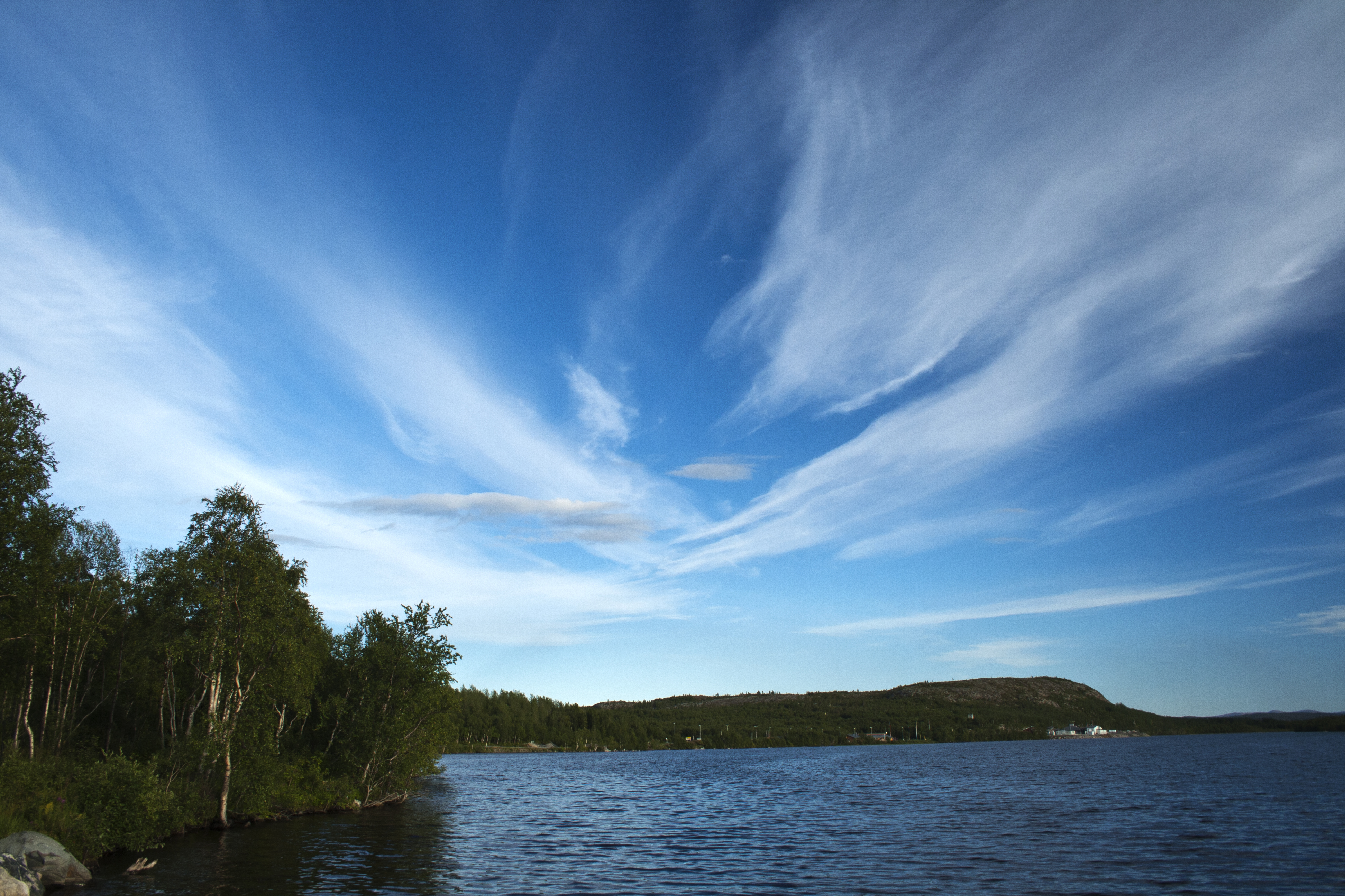 The small lake is called Pikevann. The border between Norway and Russia is in the middle of it. The border control stations are visible